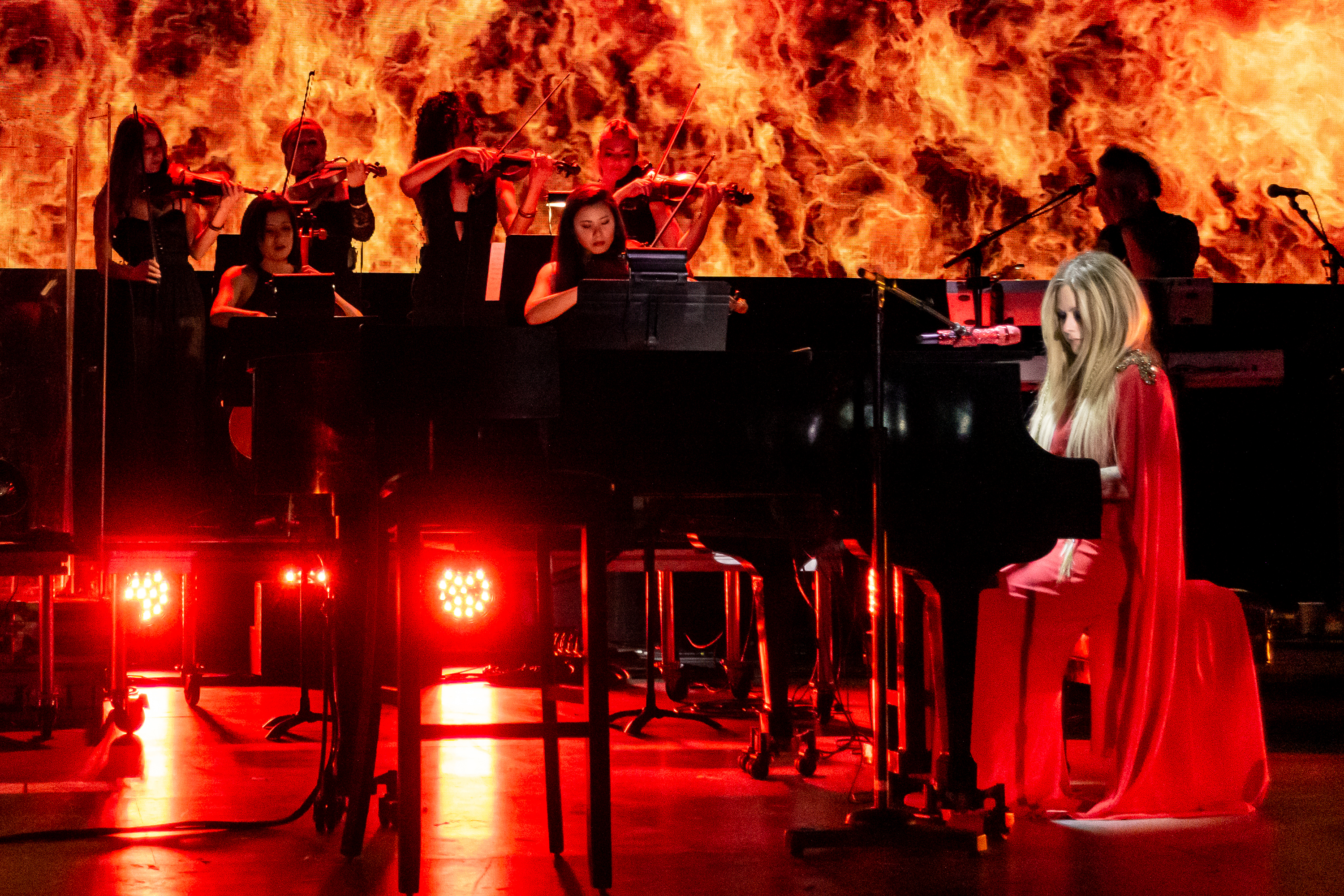 Avril Lavigne performing live at The Greek Theatre in Los Angeles on 09/18/2019.